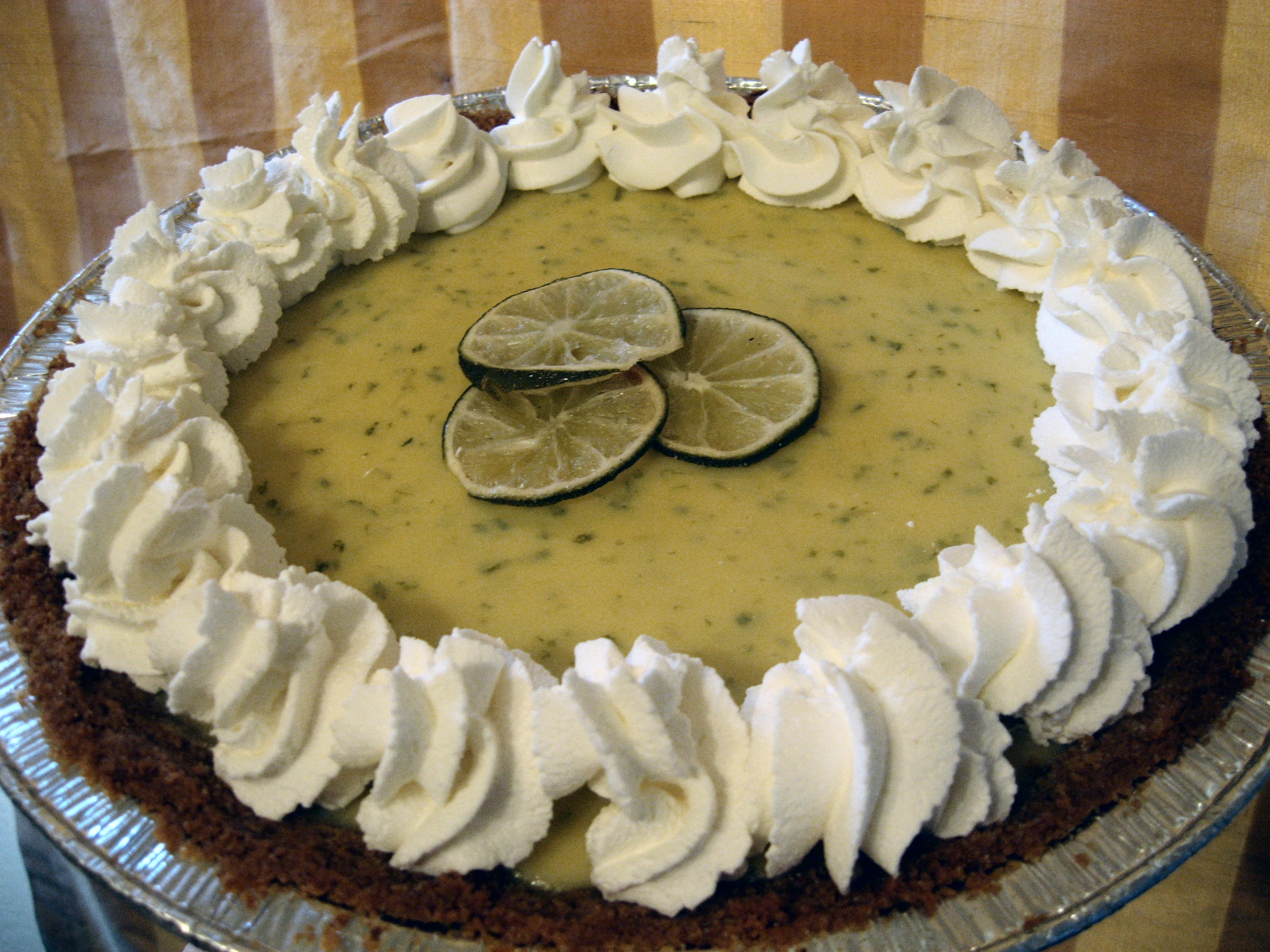 Key lime pie with whipped cream and lime decoration.